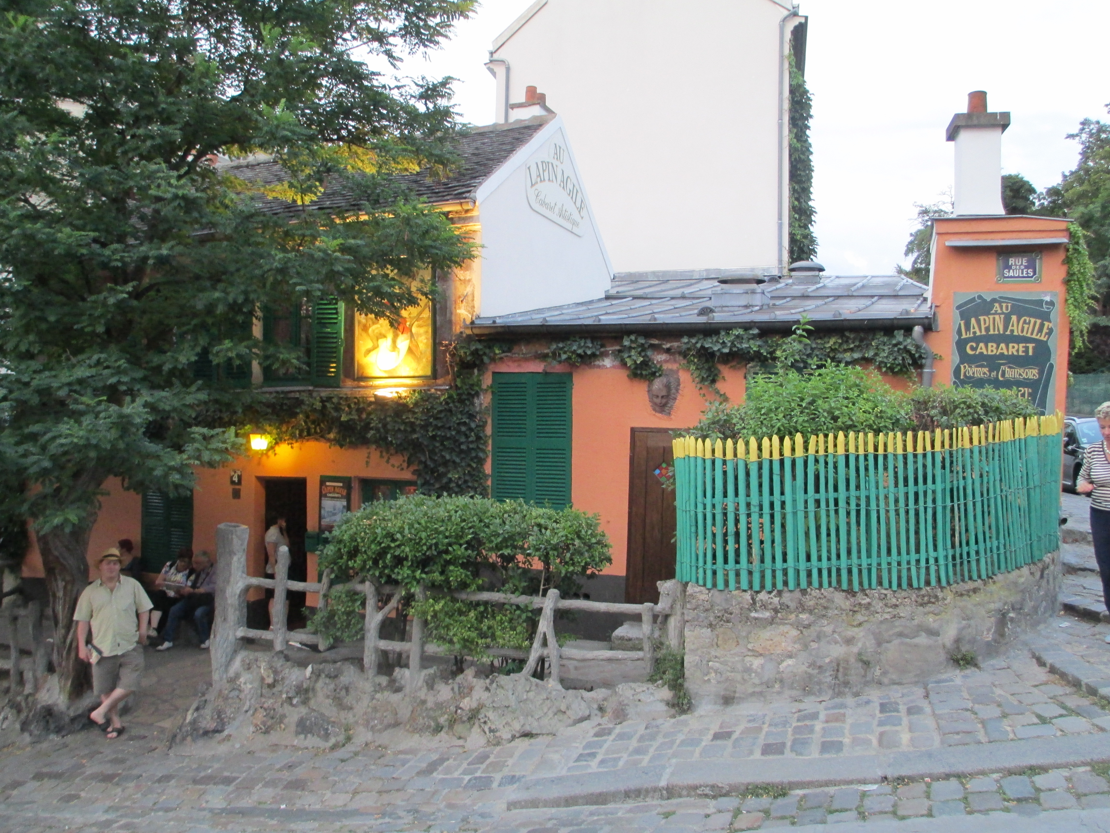 Lapin Agile nighclubPlace: 22 Rue des Saules, Montmartre, Paris, France